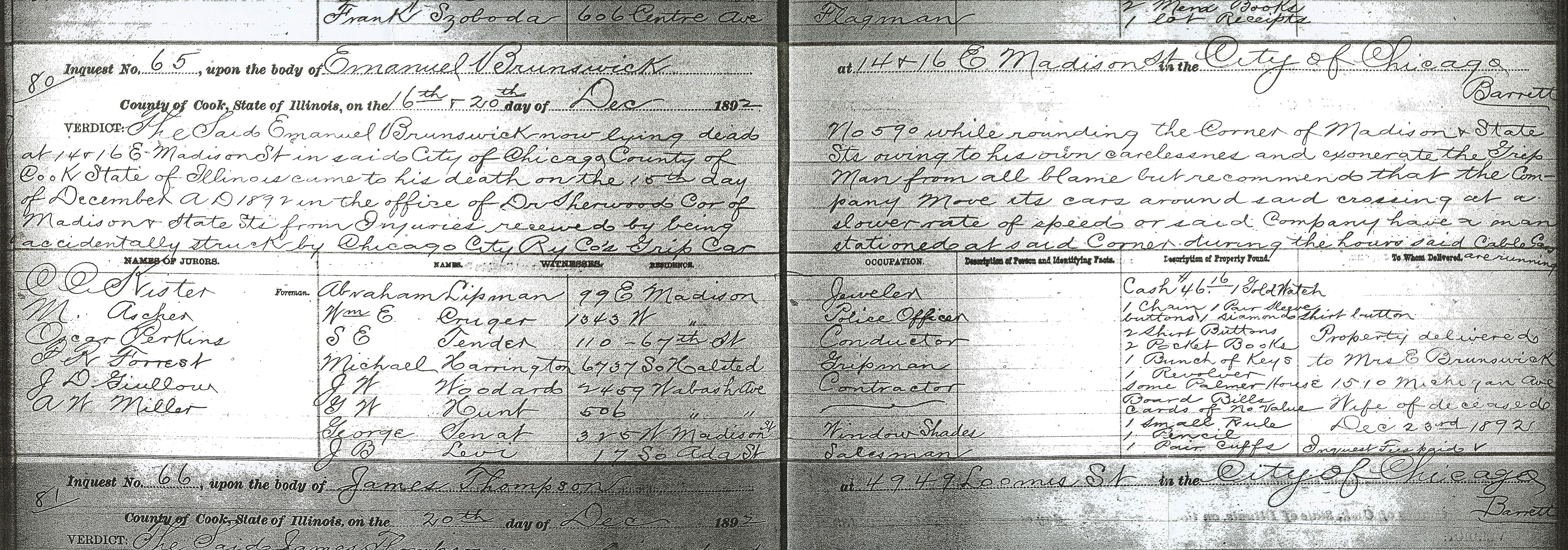 Coroners inquest from 16 December 1892 of Emanuel Brunswick's death on 15 December 1892 in Chicago.